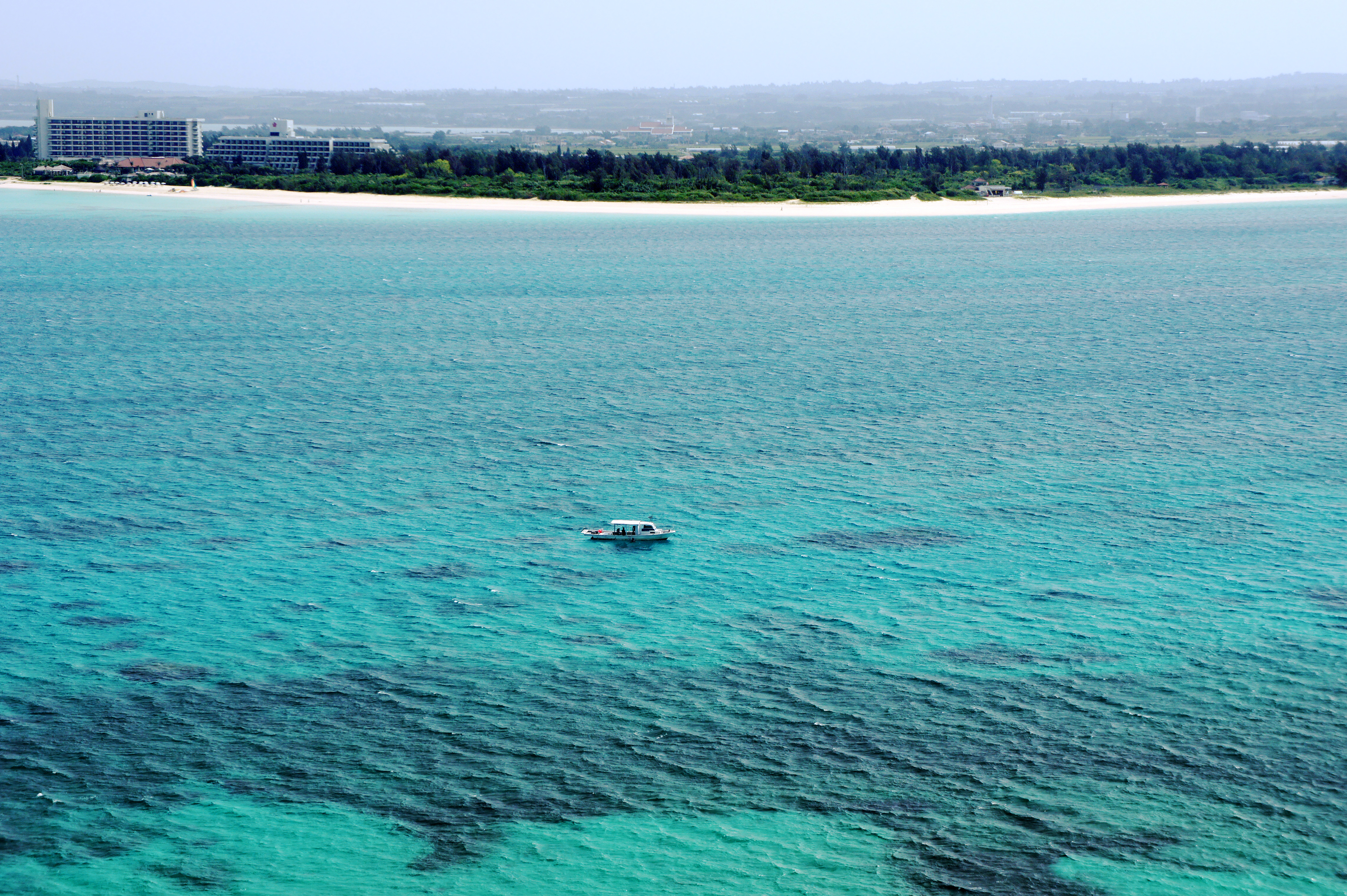 Yonahamaehama Beach view from Kurima Island in Miyakojima, Okinawa Prefecture, Japan.